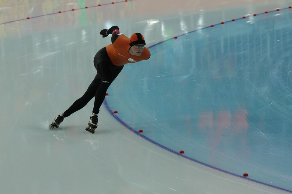 Men's 5000m, 2014 Winter Olympics, Sven Kramer